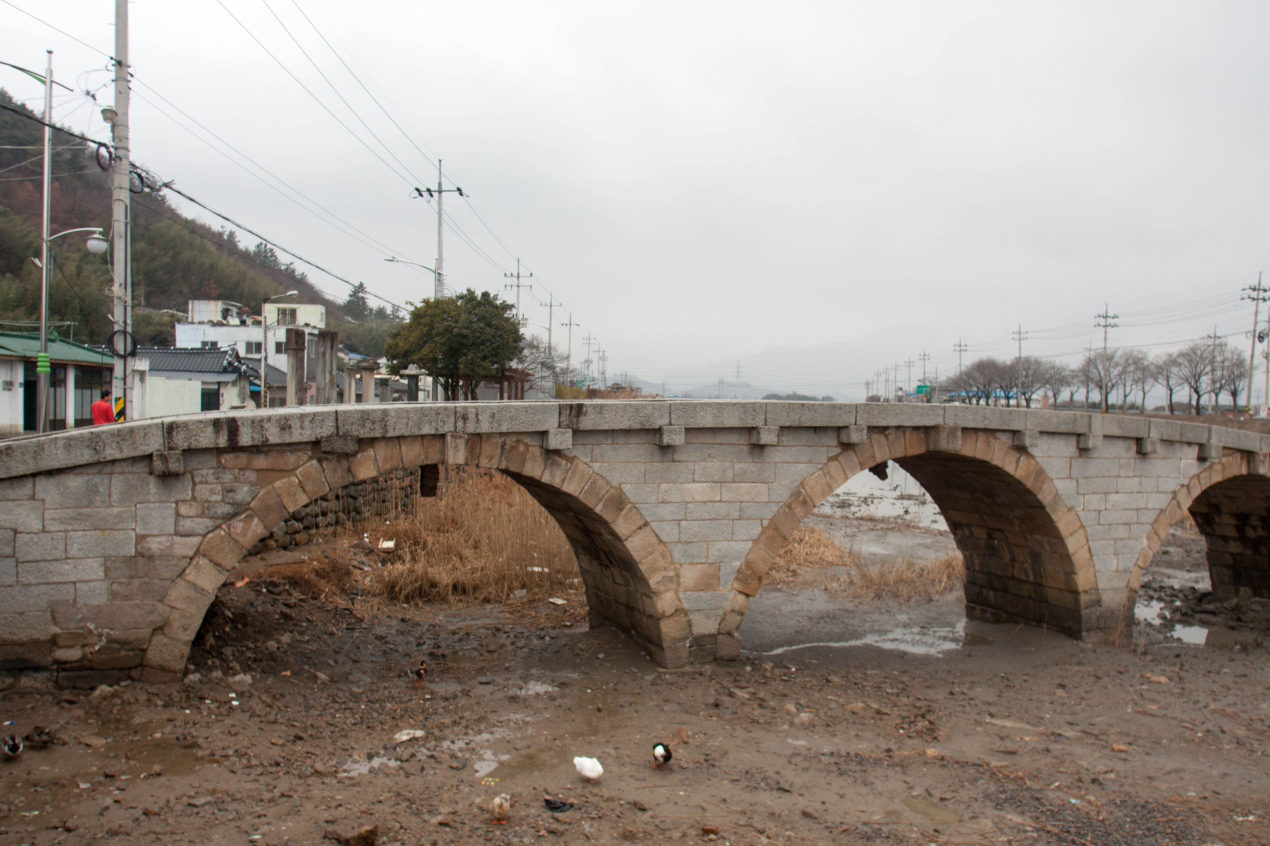 Hong-gyo(It means arch bridges) at Beolgyo in Boseong, Korea